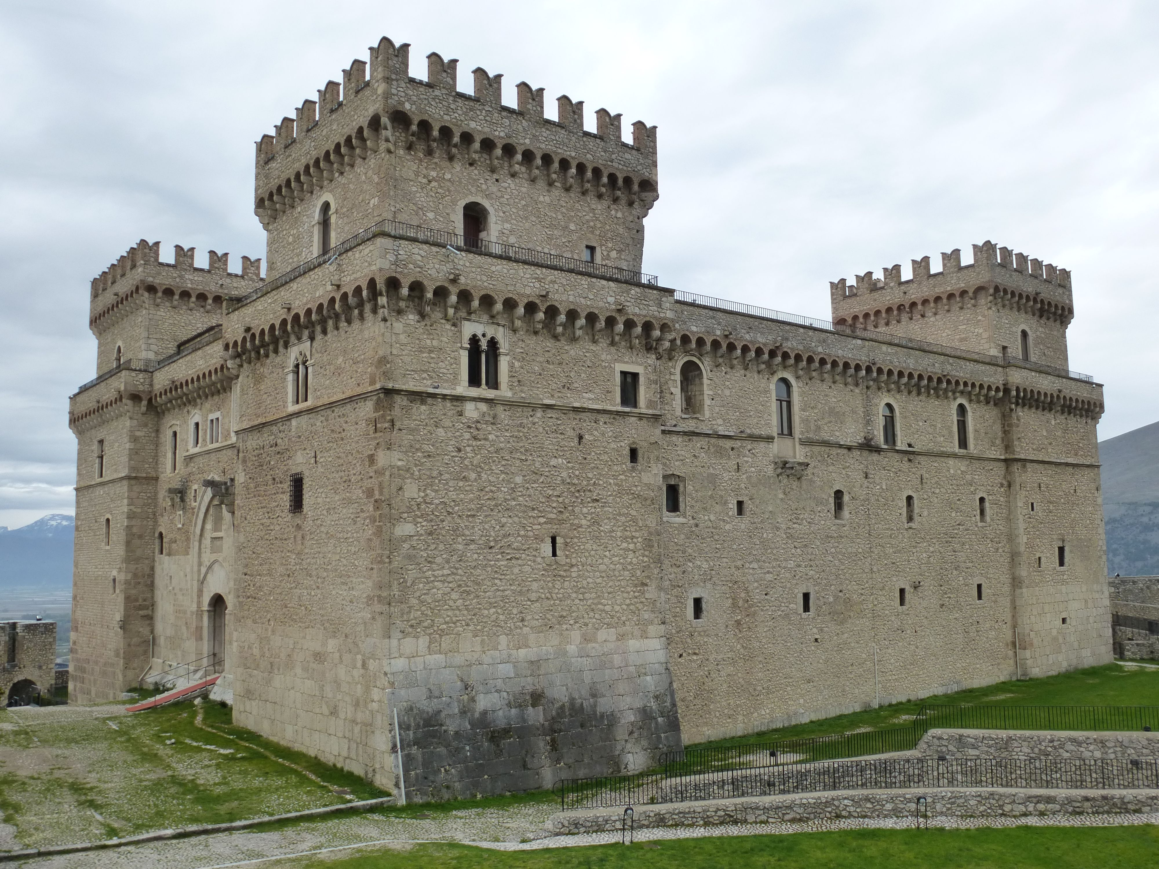 Piccolomini castle, Celano, Abruzzo, Italy